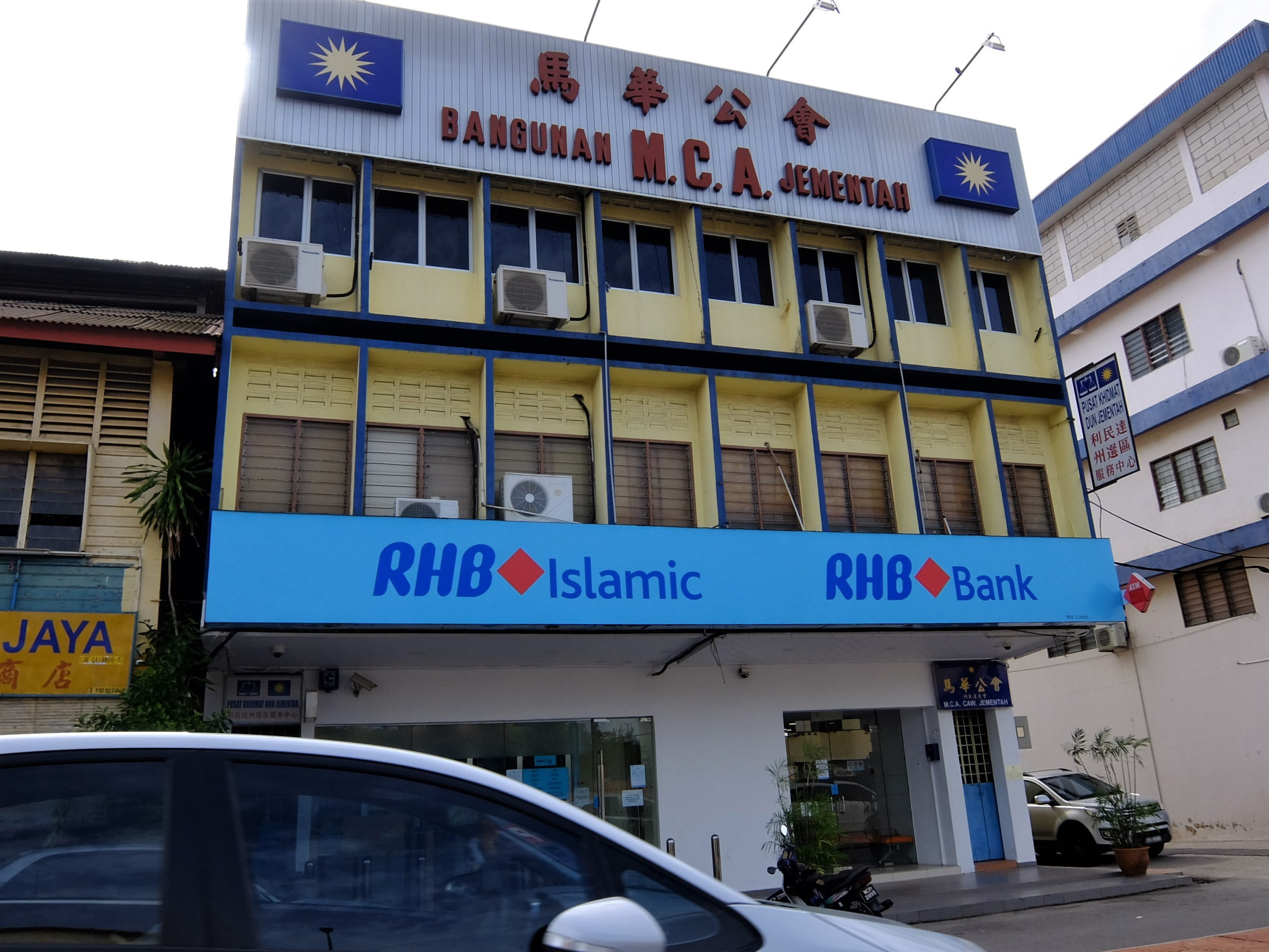 Malaysian Chinese Association Jementah, Jementah, Segamat, Johor, Malaysia